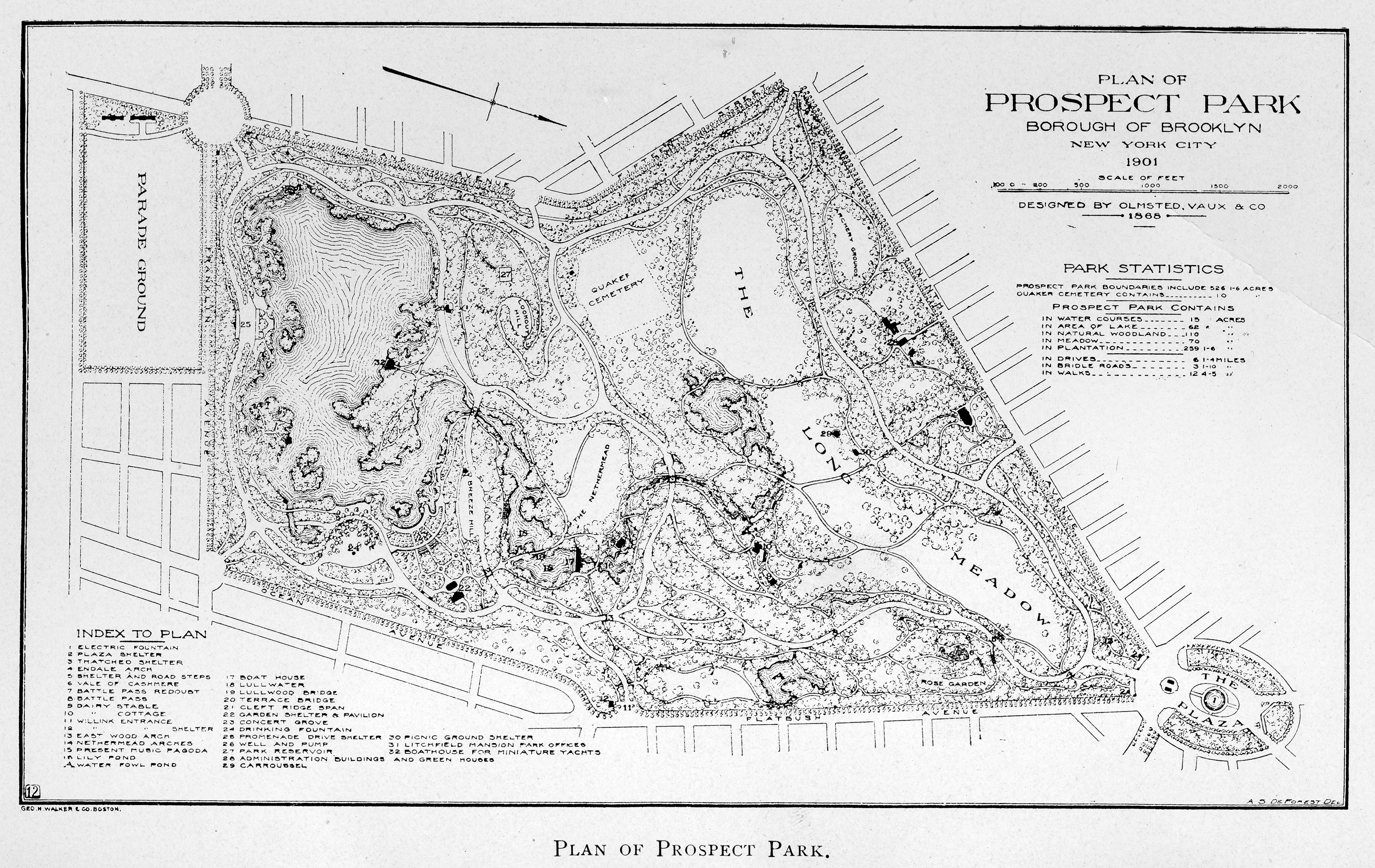 Plan of Prospect Park, Borough of Brooklyn, New York City